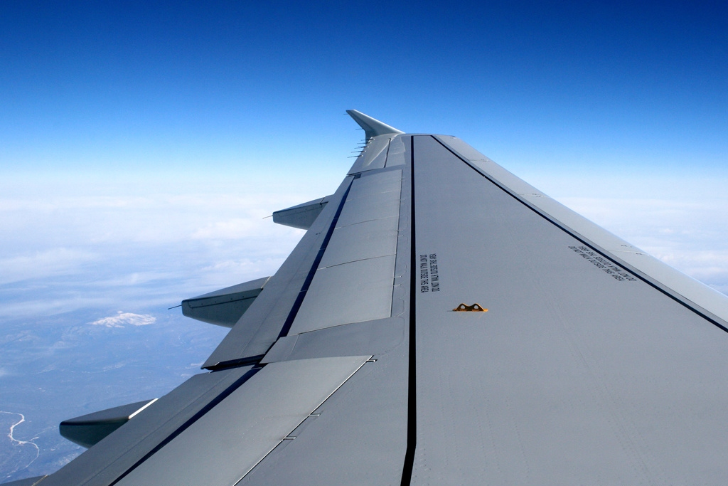 Over Russian Far East. New A320 in S7 fleet from Toulouse.